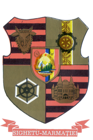 Communist coat of arms of Sighetu-Marmației municipality, Maramureș County, Socialist Republic of Romania.